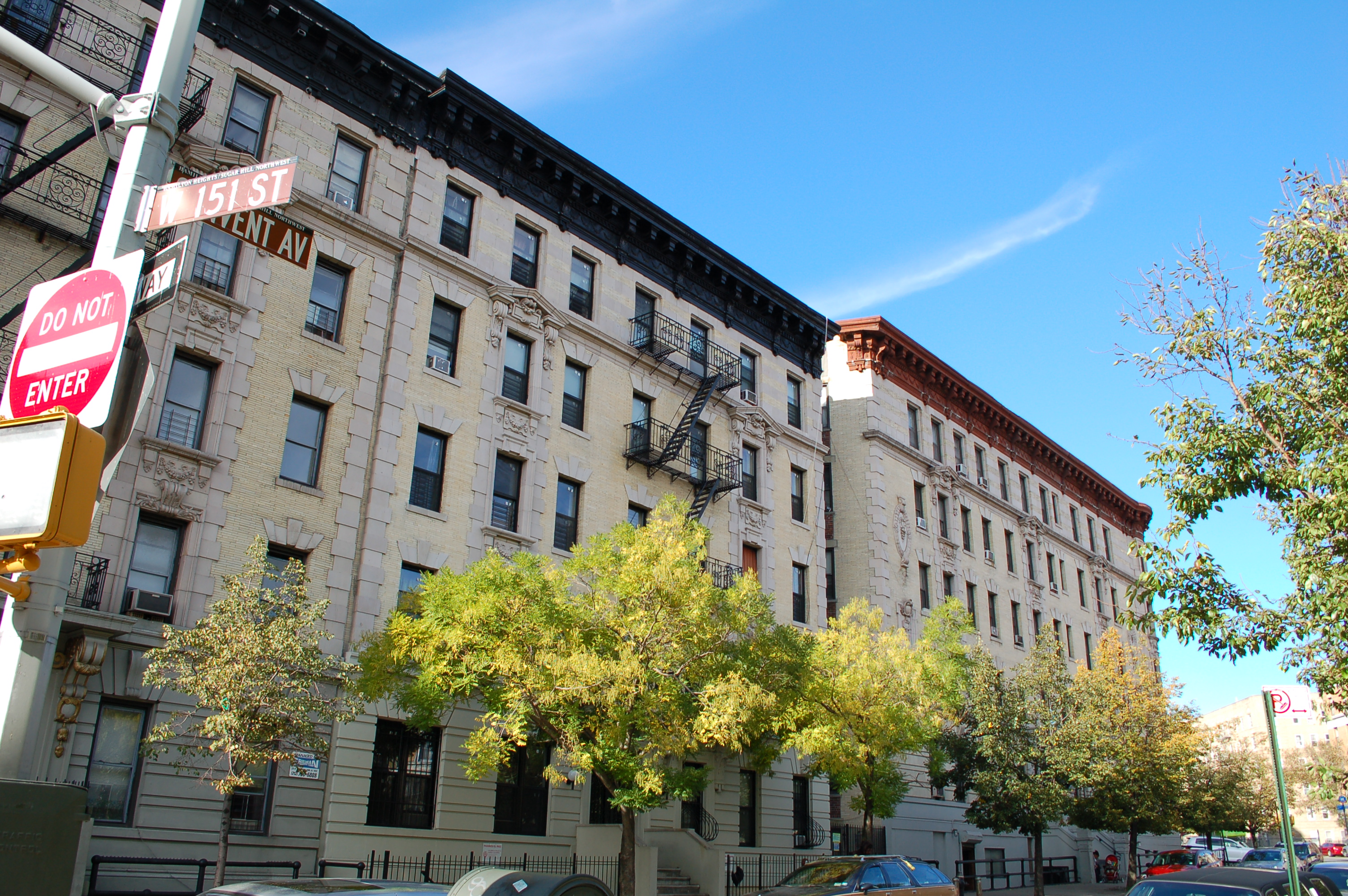 The Sugar Hill Historic District in New York City